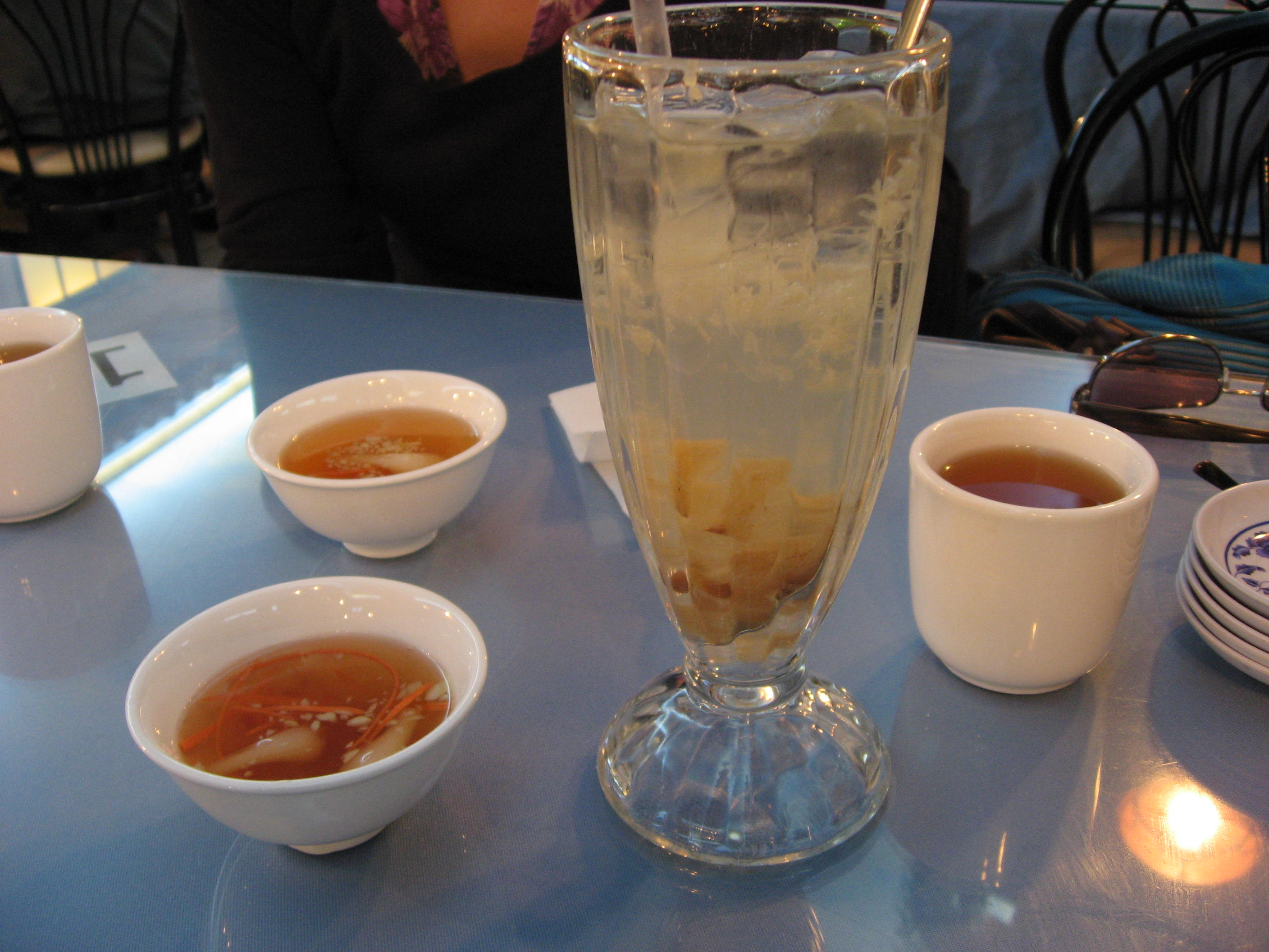 A glass of chanh muối (Vietnamese cold drink made from salty pickled lemons, sugar, and ice). Photo taken with a Canon PowerShot SD700 IS digital camera, in New York City's Chinatown. The small bowls contain a dipping sauce called nước chấm, and the cups contain hot tea.